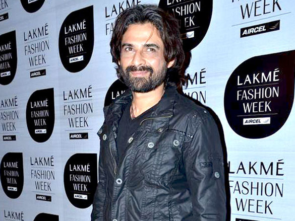 Mukul Dev